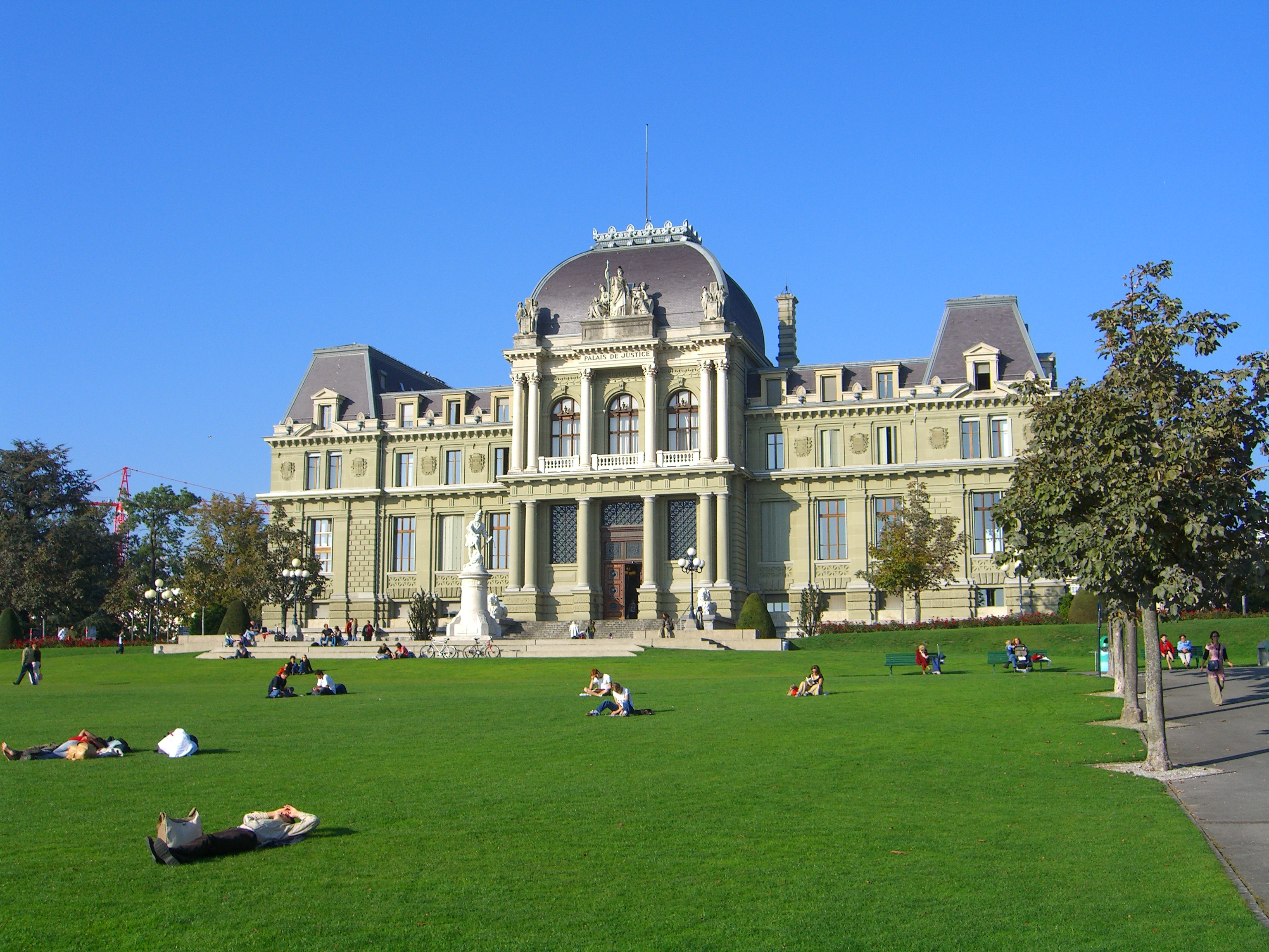 As seen from the "Esplanade de Montbenon", in Lausanne, Vaud, Switzerland.